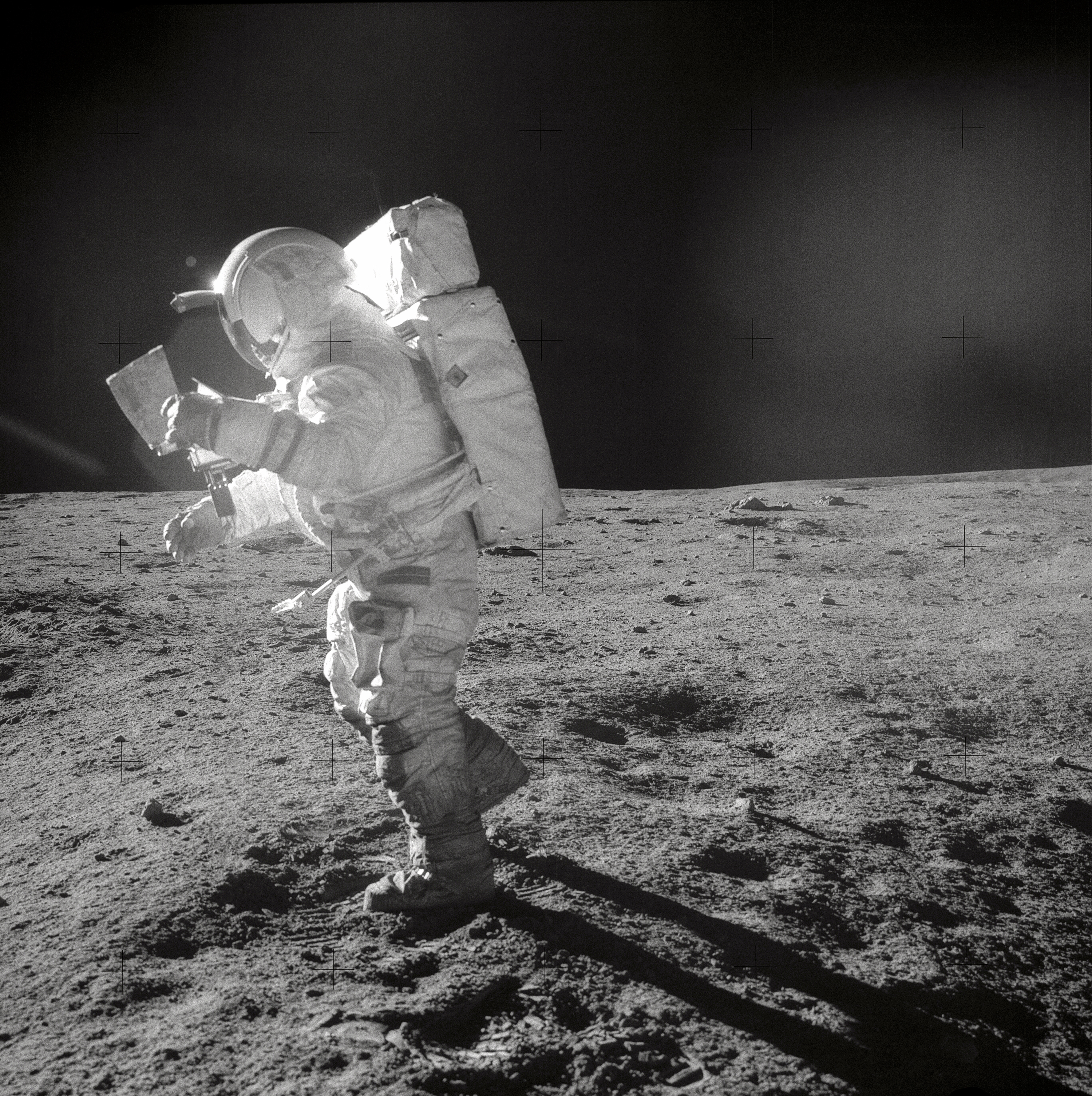 Astronaut Edgar D. Mitchell, Apollo 14 Lunar Module pilot, moves across the lunar surface as he looks over a traverse map during extravehicular activity (EVA). Lunar dust can be seen clinging to the boots and legs of the space suit.